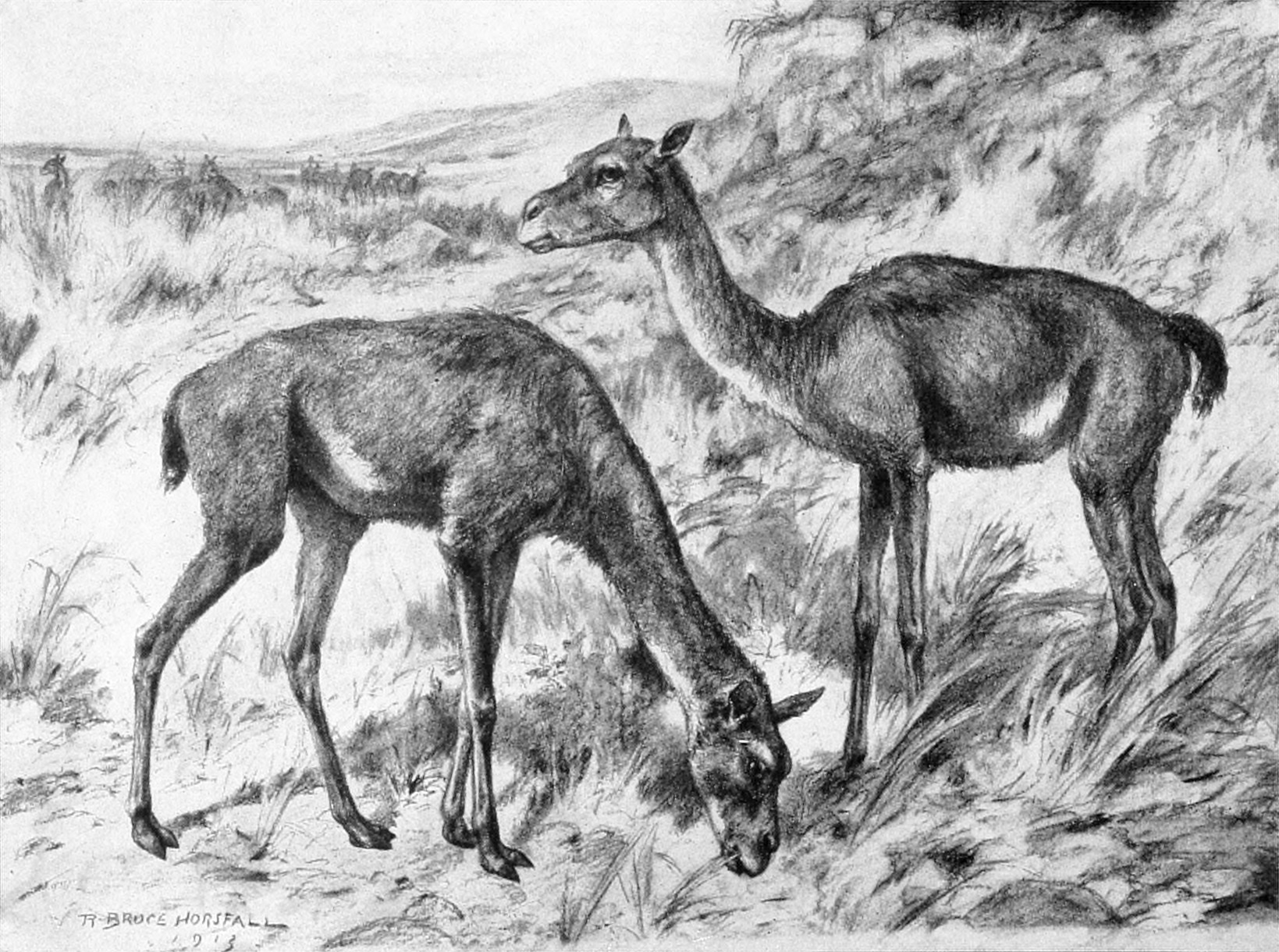 Life restoration of Stenomylus hitchcocki from W.B. Scott's A History of Land Mammals in the Western Hemisphere. New York: The Macmillan Company.